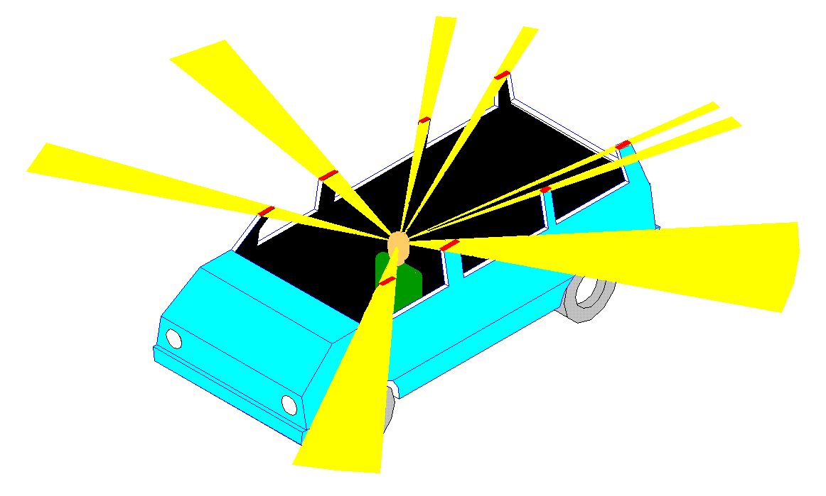 Who created this image? Stef Breukel inventor of the world arm lamp Who owns the copyright to this image? Stef Breukel did. Where did this image come from? Stef Breukel donated it to wikipedia. Own work of the uploader.